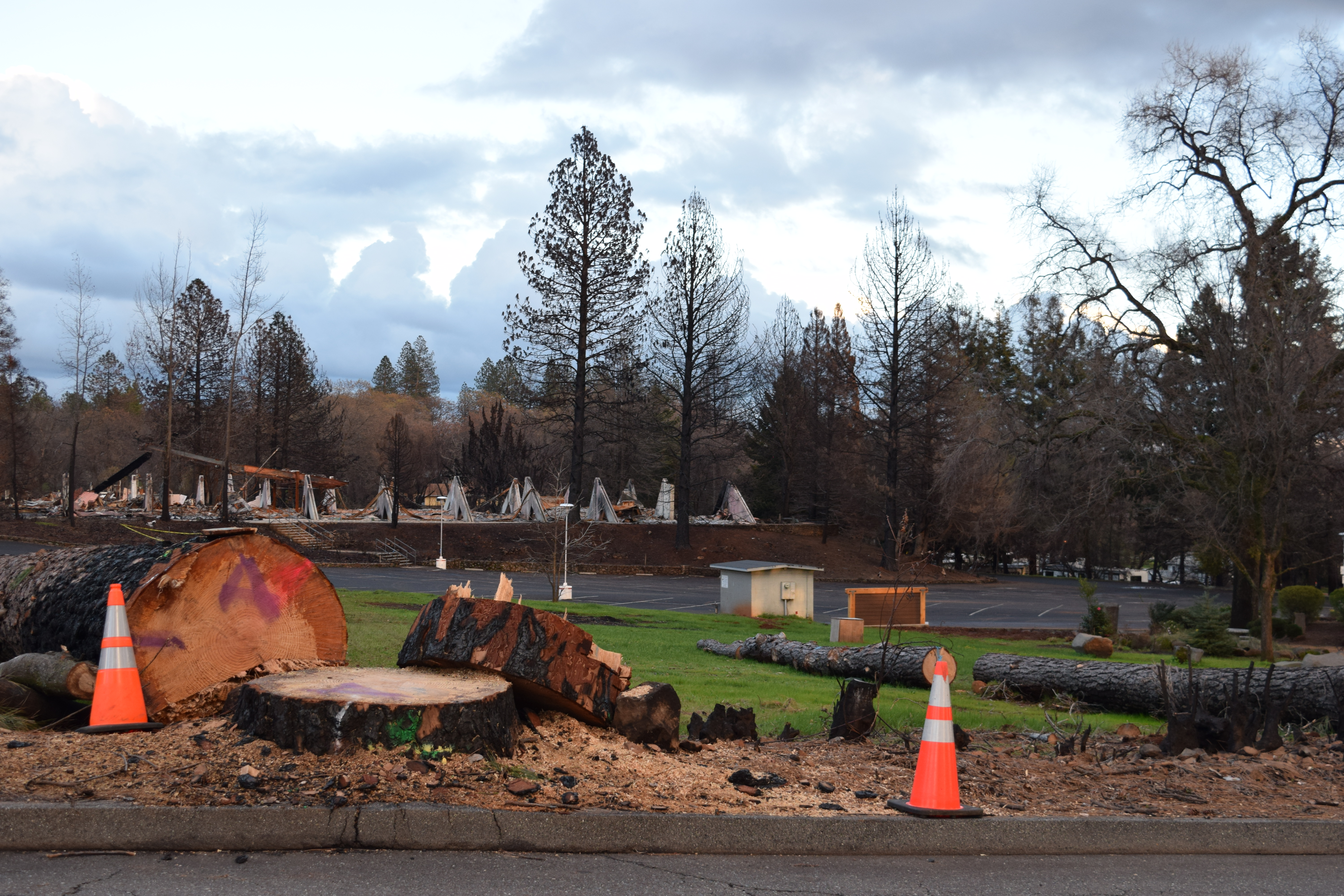 Ruins of 7th Day Adventist church March 27, 2019